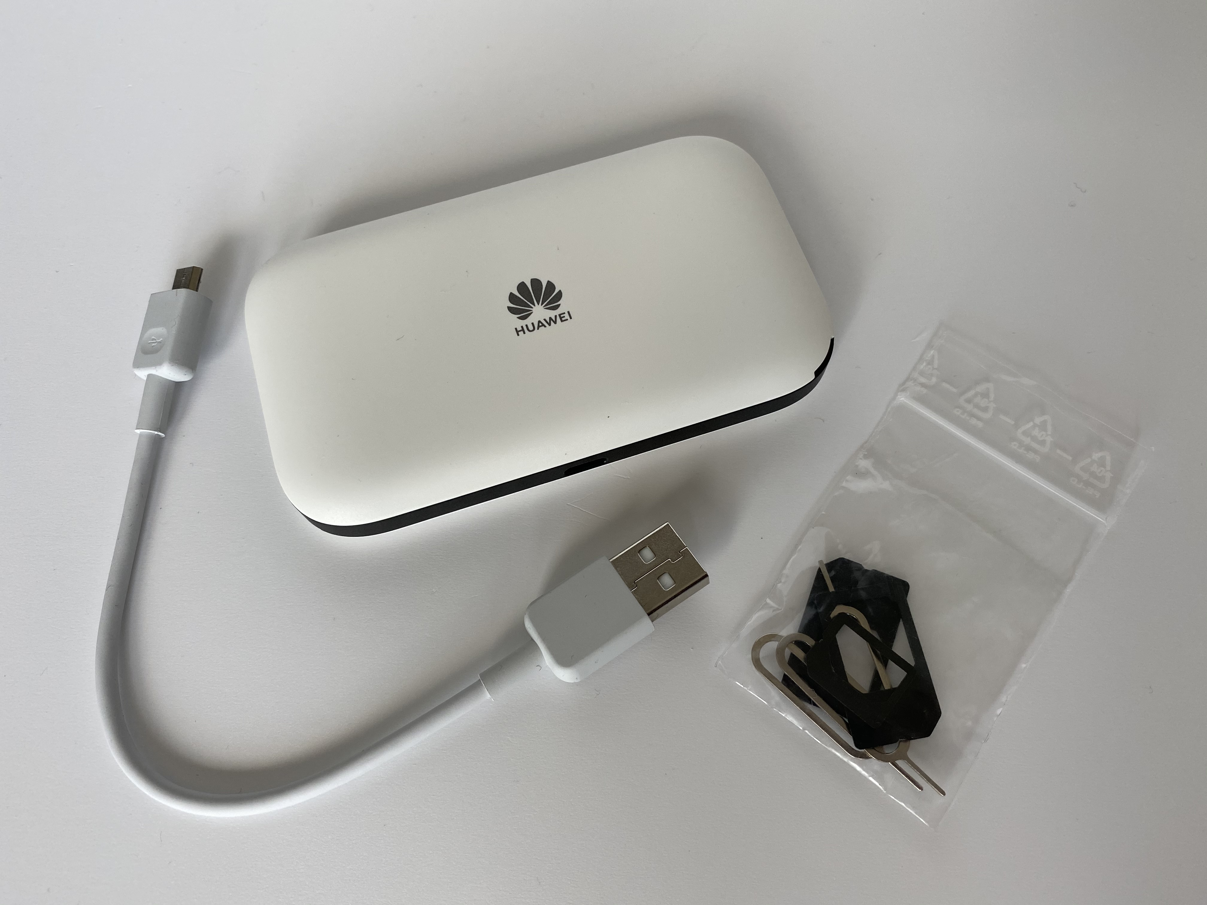 Huawei E5576-320 4G Hotspot Wifi LTE Router